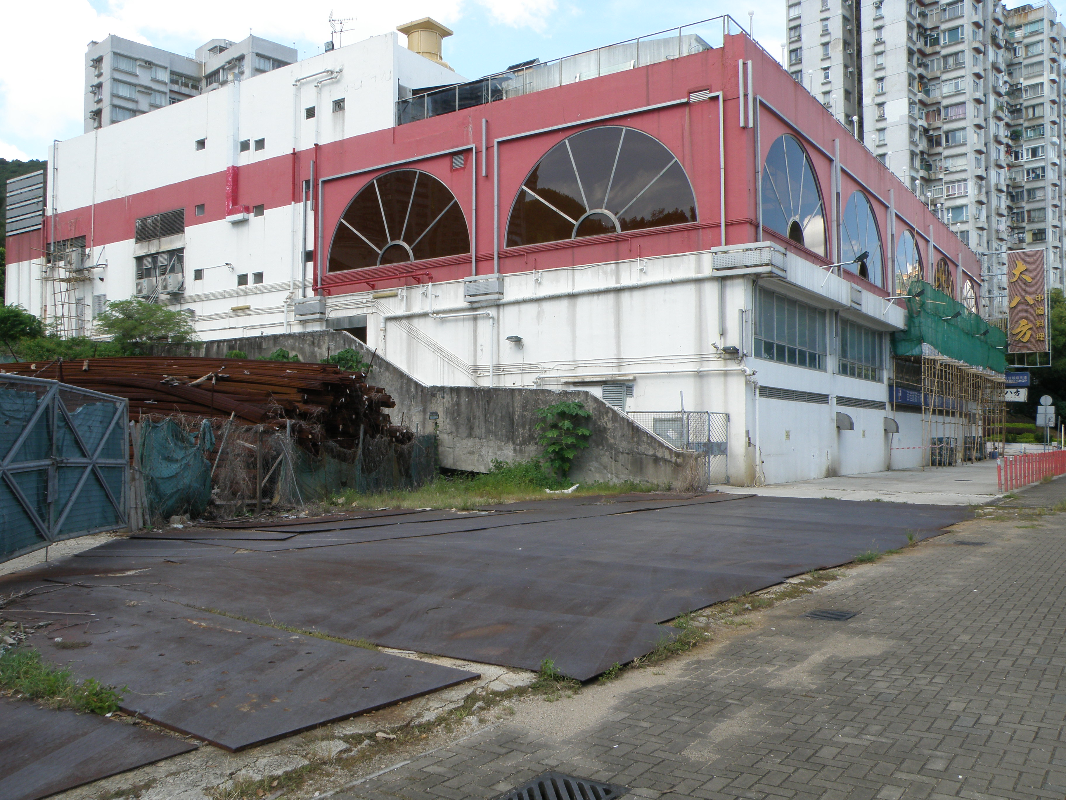 Hong Kong Garden commercial complex in Tsing Lung Tau, Hong Kong.